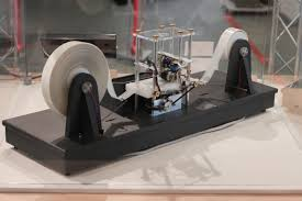 On one end tape would be pulled into the machine to be read and on the other side tape would be output with symbols printed on it based on the input from the first roll of tape.